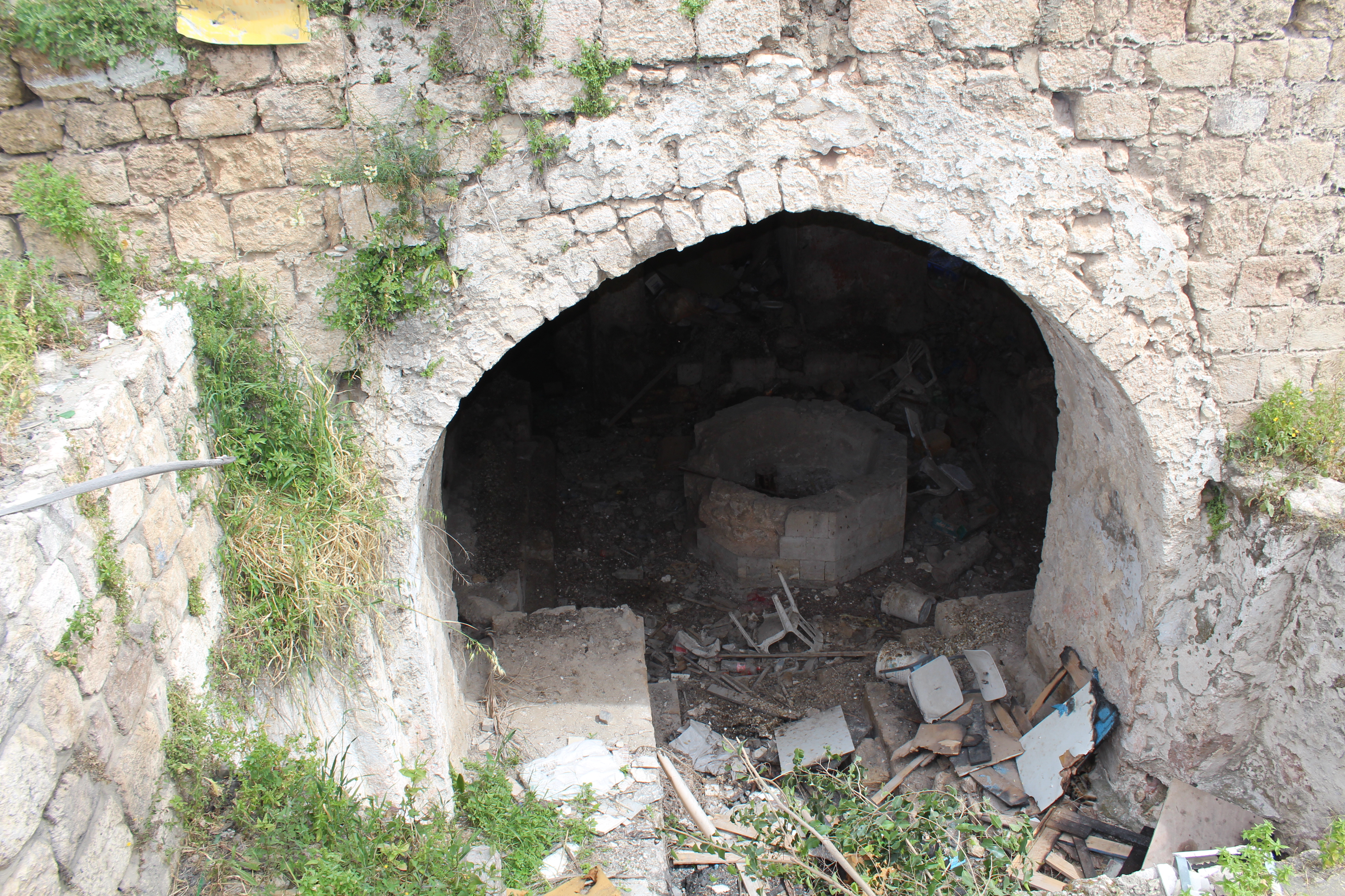 Hamam Radwan, Ramla, Israel This image was taken as part of the Elef Millim project trip to Ramla, in Israel which was held on Friday, 27th March 2015. To view all images uploaded as part of the Elef Millim Project